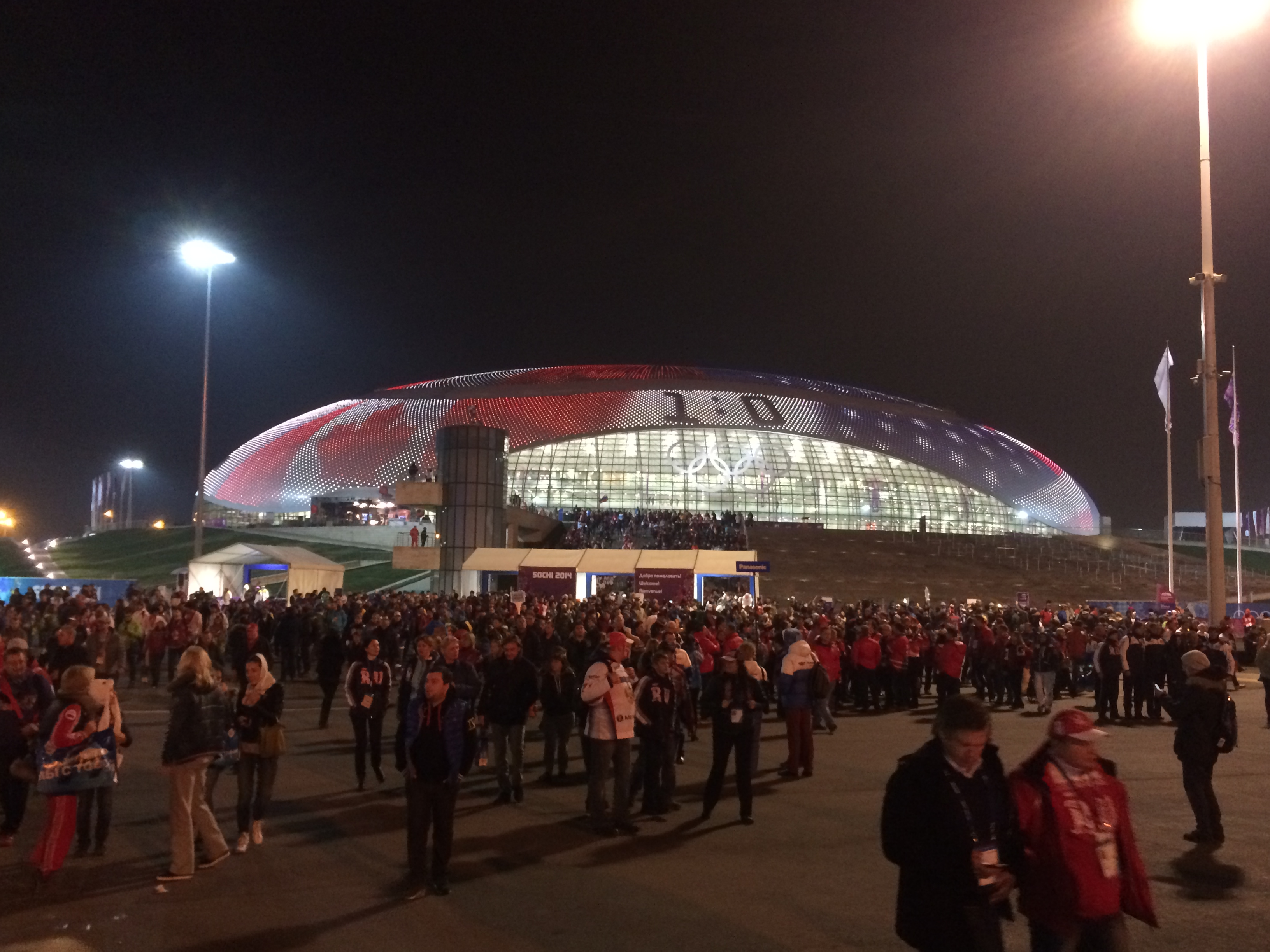 Bolshoy Ice Dome Showing USA-CAN Mens' Hockey Score (6)